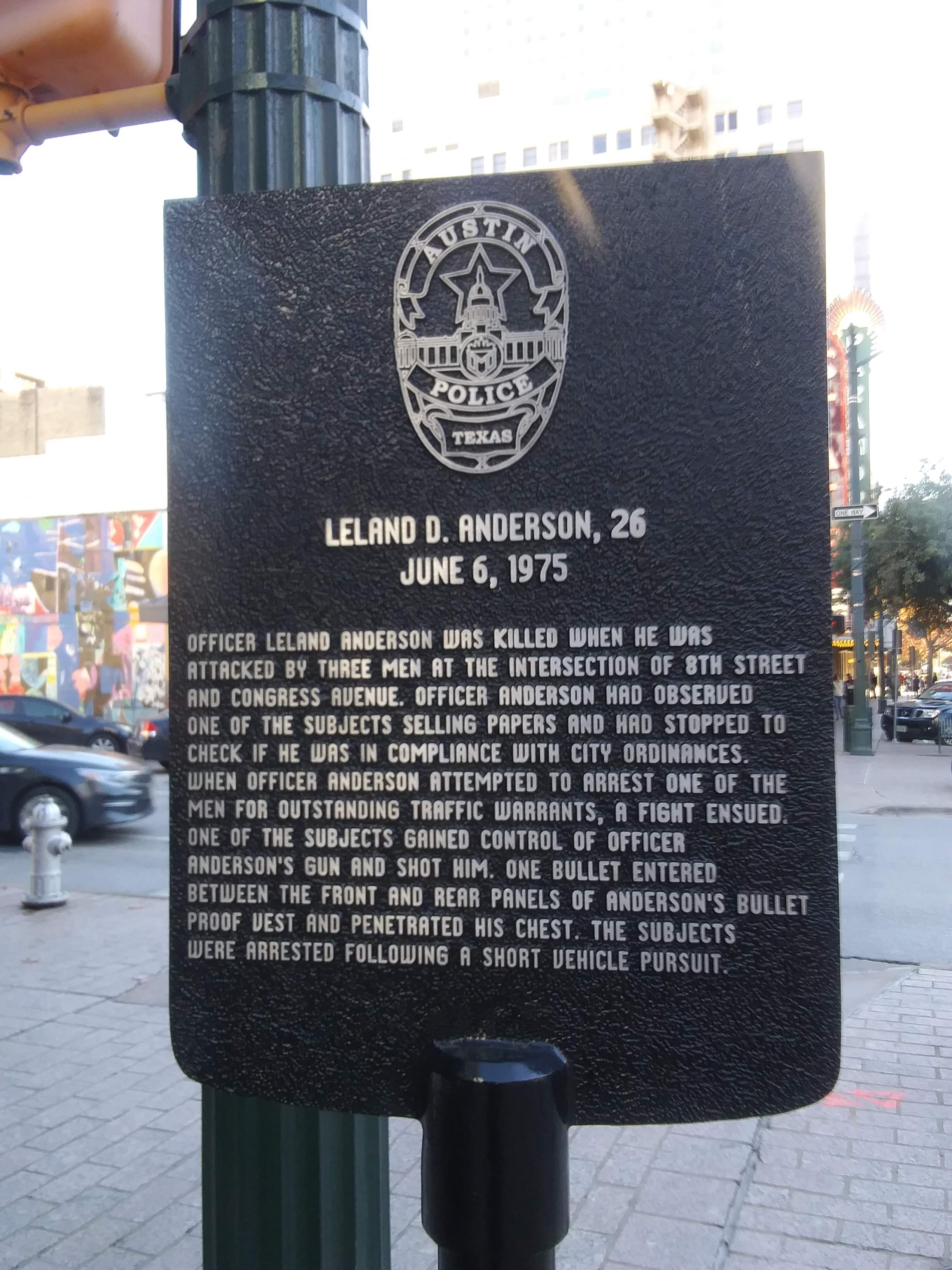 Memorial plaque on Congress Ave. Austin, Tx.